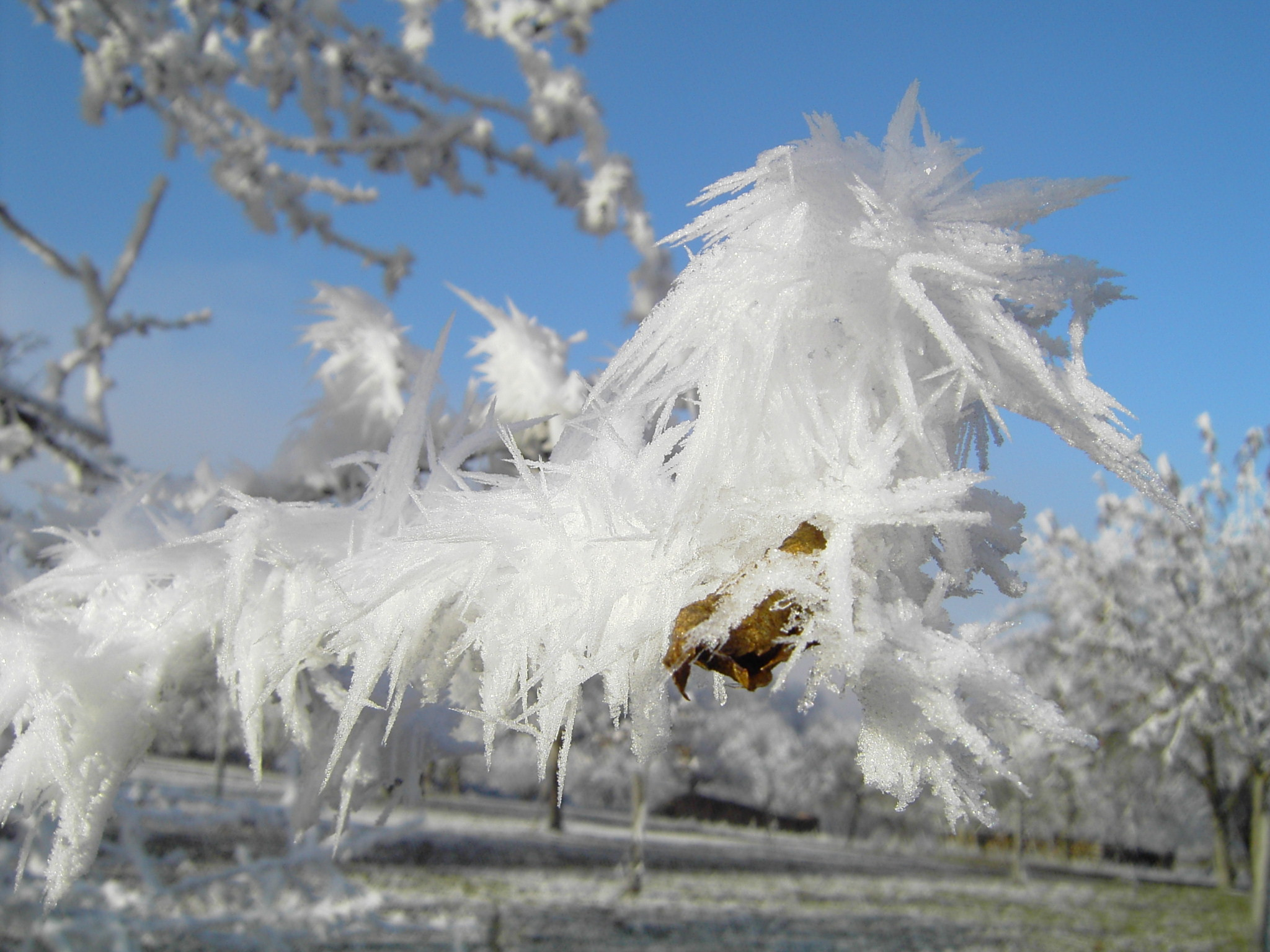 Soft rime in Möttlingen/Germany